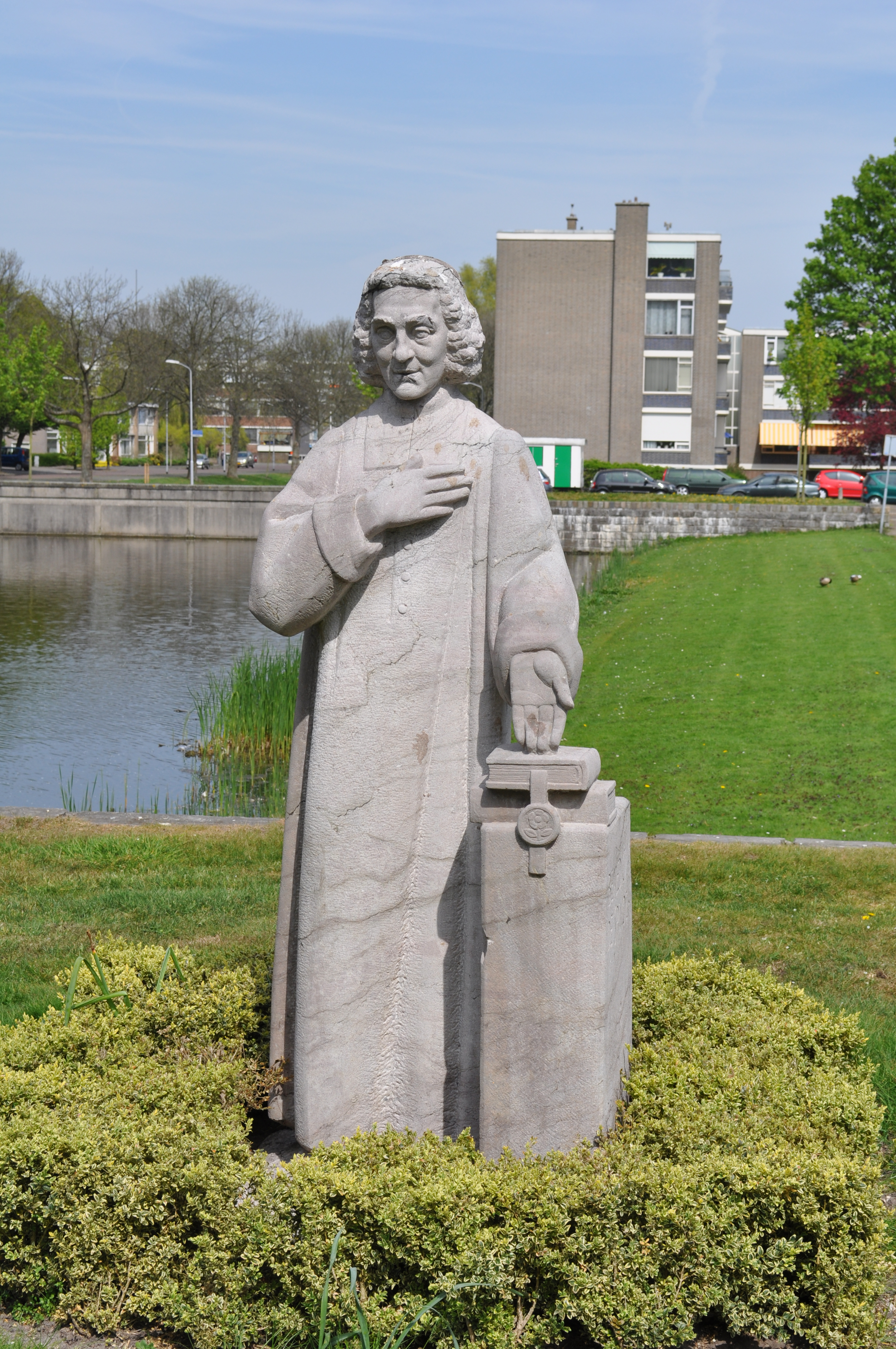 Statue of Benedictus de Spinoza by Rudolf Roth in 1988. Placed at Park 't Loo in Voorburg between Hendrik van Boeijenlaan and Prins Bernhardlaan.